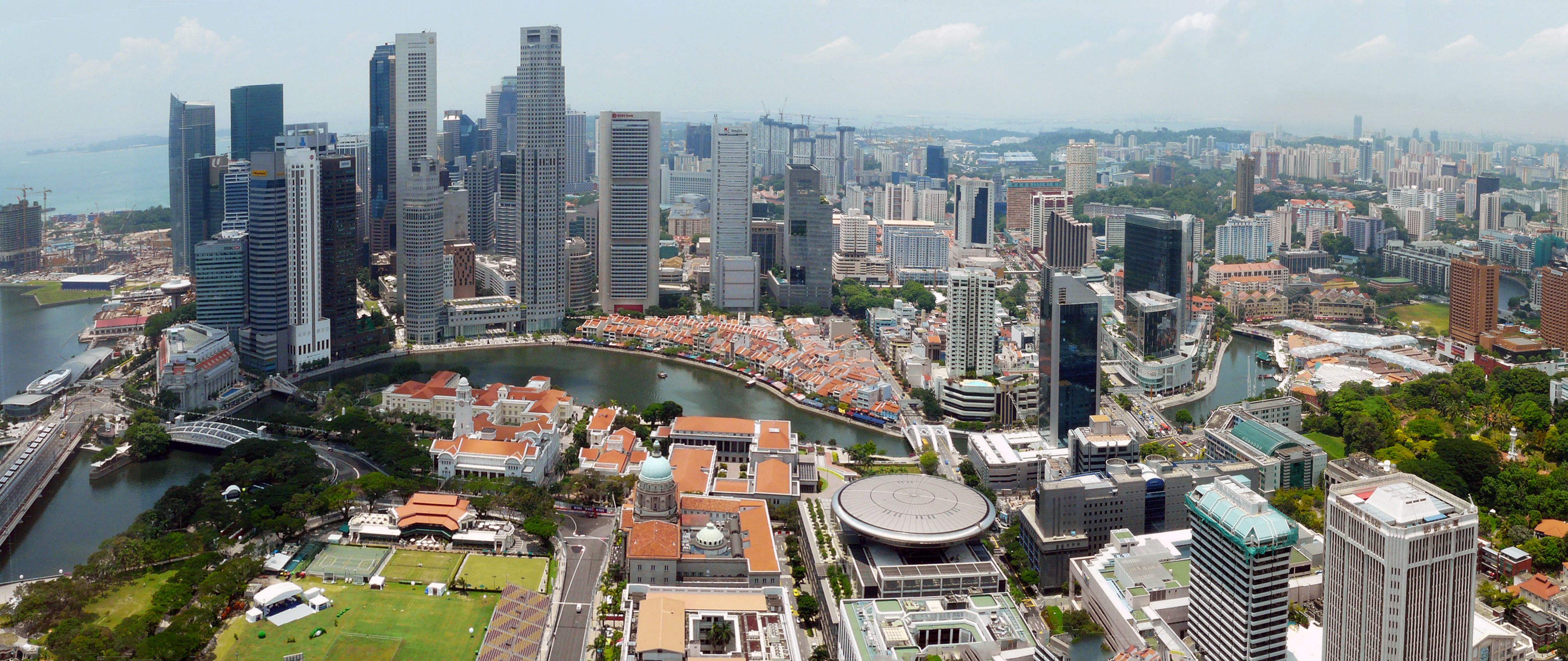 Singapore skyline panorama aerial view day 2010 central business district downtown core boat quay supreme court of singapore